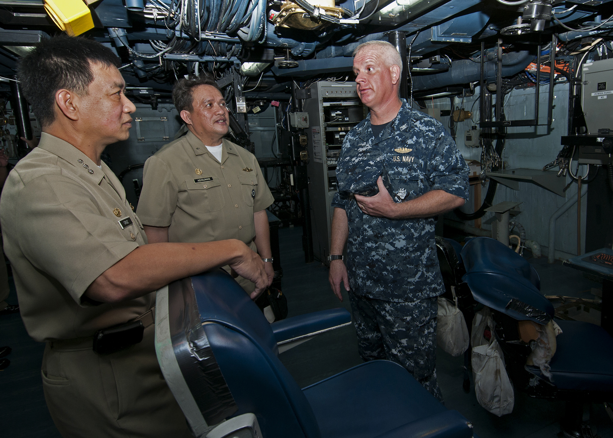 SUBIC BAY, Philippines (Sept. 11, 2012) Capt. Alberto Cruz, commanding officer of the Philippine navy ship BRP Gregorio Del Pilar (PF 15), gives Commodore Manuel Natalio and Capt. Pete Hildreth, commanding officer of the submarine tender USS Frank Cable (AS 40), a tour of the navigation room. Frank Cable conducts maintenance and support of submarines and surface vessels deployed in the U.S. 7th Fleet area of responsibility. (U.S. Navy photo by Mass Communication Specialist Seaman Chris Salisbury/Released) 120911-N-CO162-045 Join the conversation navylive.dodlive.mil